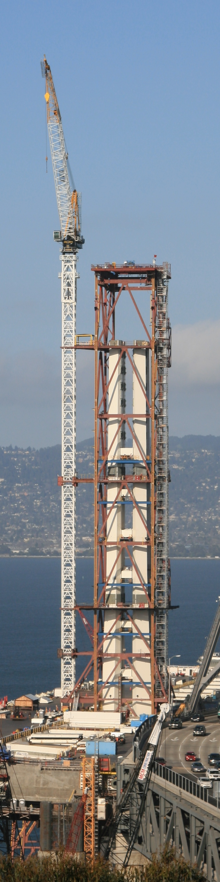 Fourth stage of tower erection with four segments in place